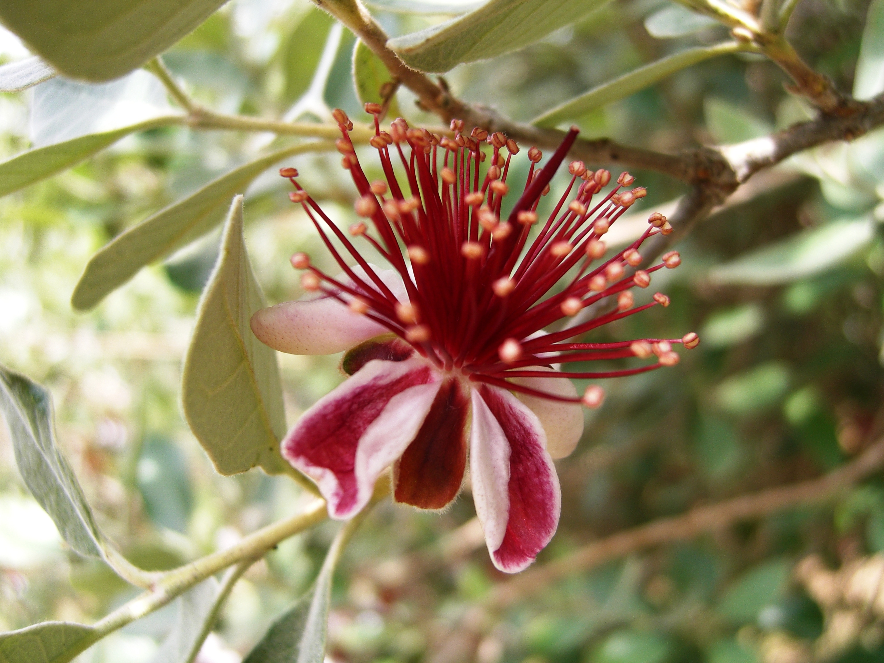 Acca sellowiana (Feijoa sellowiana)